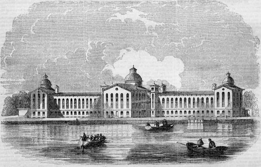 House of Refuge, Randall's Island, New York, a wood engraving published November 1855 in Ballou's Pictorial Drawing-Room Companion, Boston, Massachusetts. The reform school building was completed in 1854.